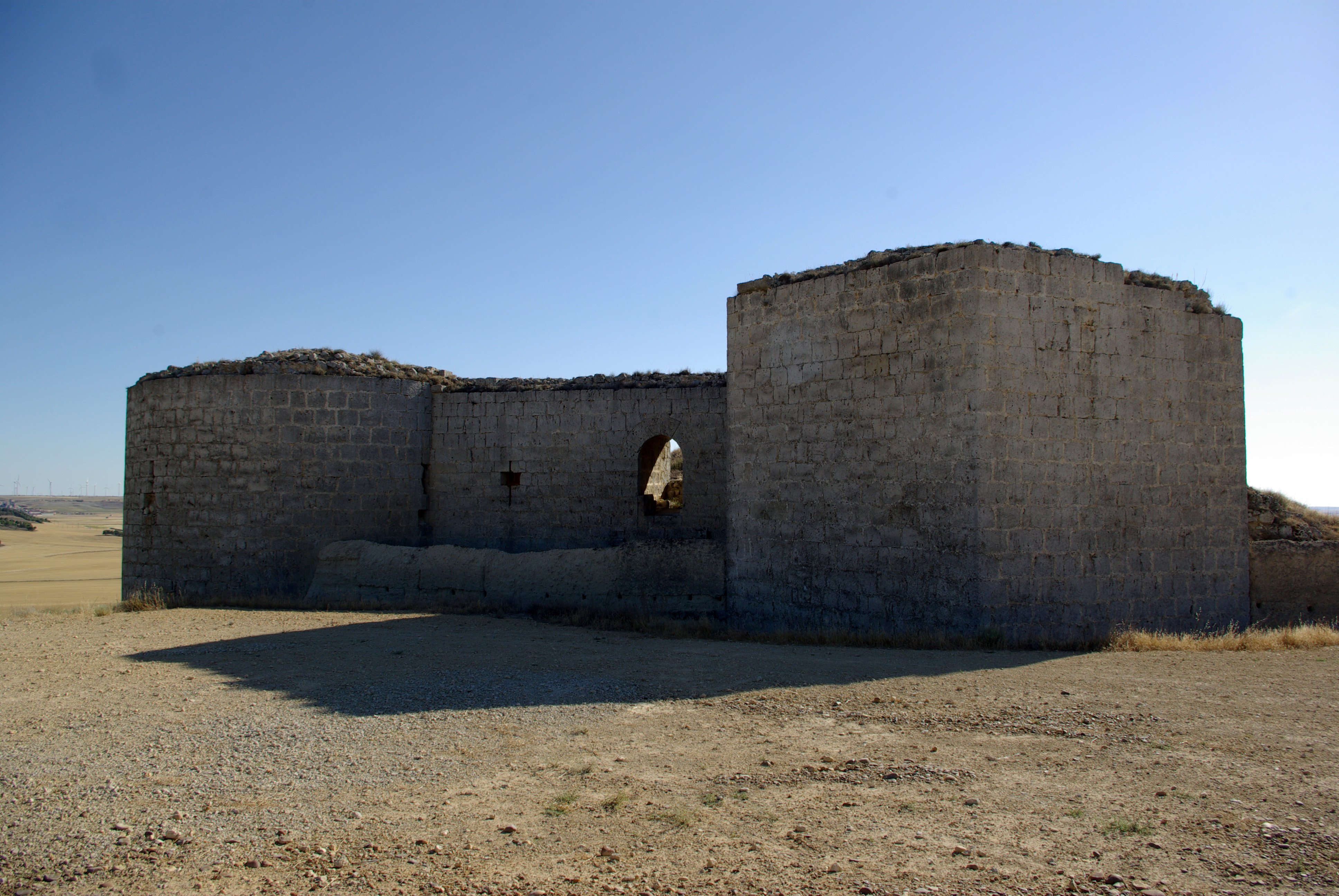 Torremormojón castle. (Palencia, Spain)